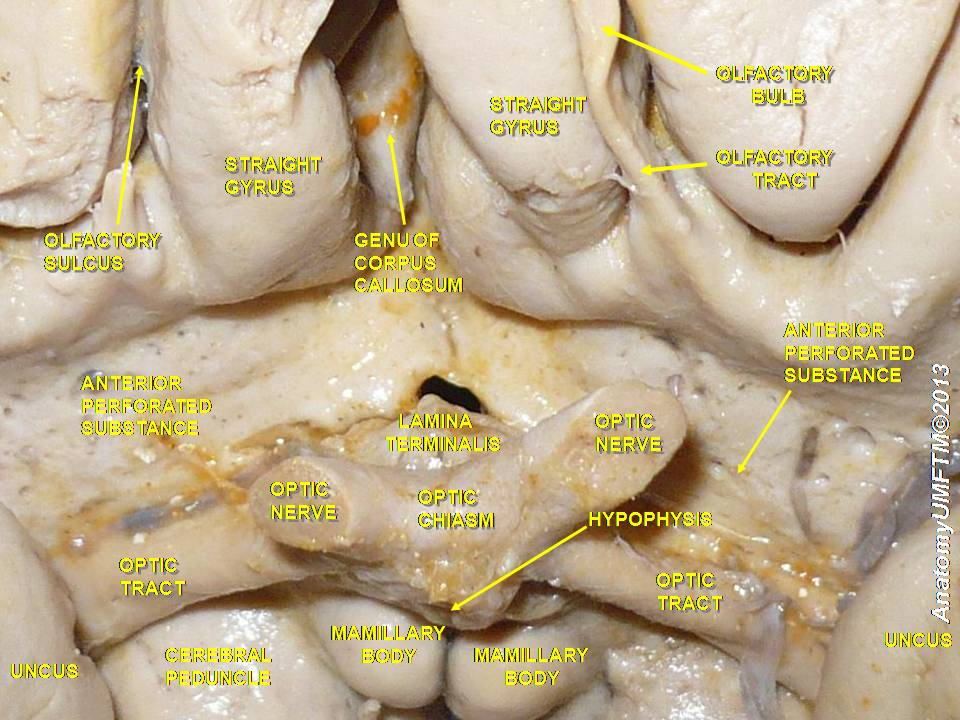 Anatomical dissections